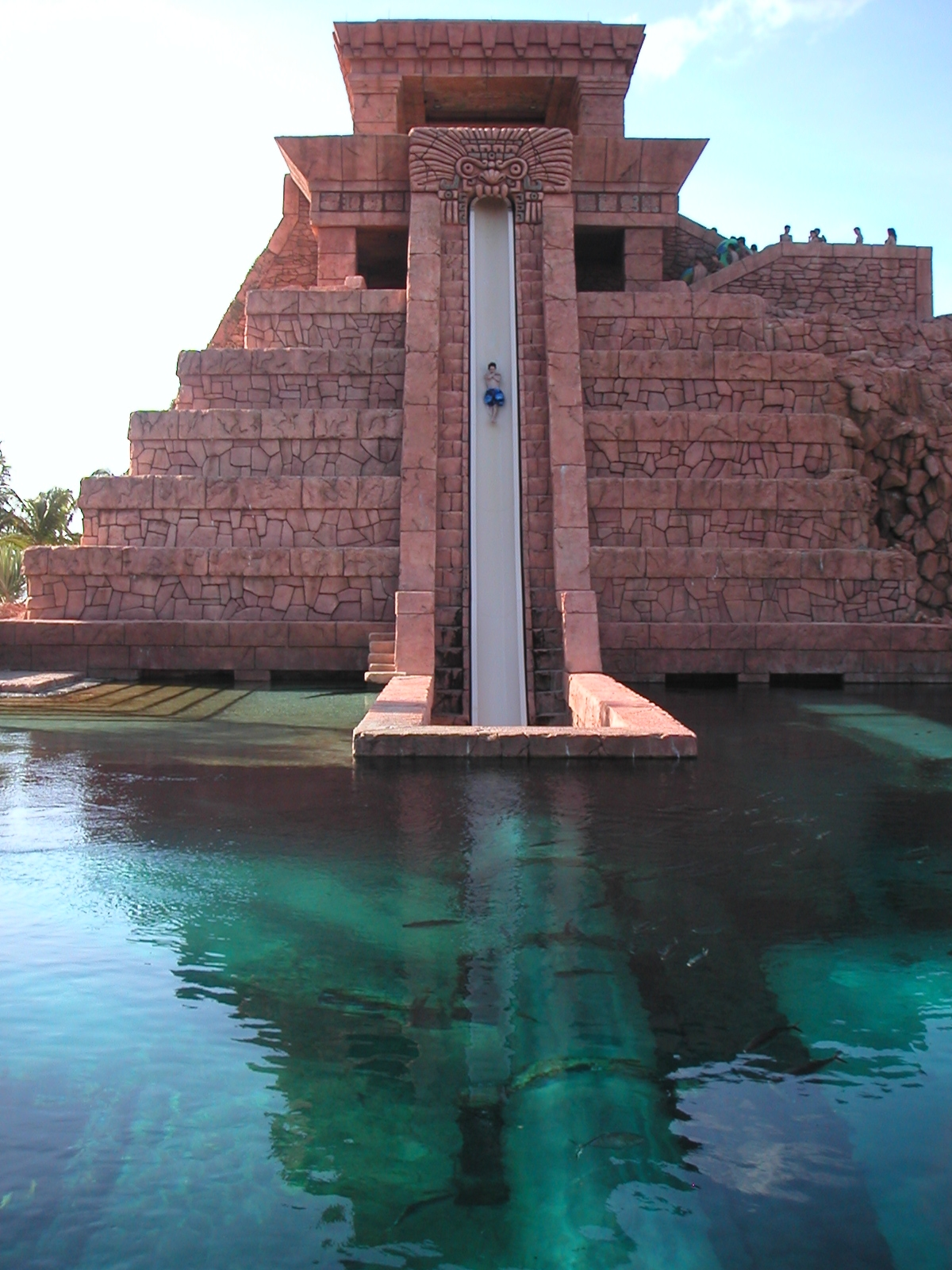 Sharks await visitors at the bottom of Mayan Temple Water Slides at Atlantis, Paradise Island, Nassau, Bahamas. Visitors on tubes slide past these sharks inside rectangular acrylic tunnels.